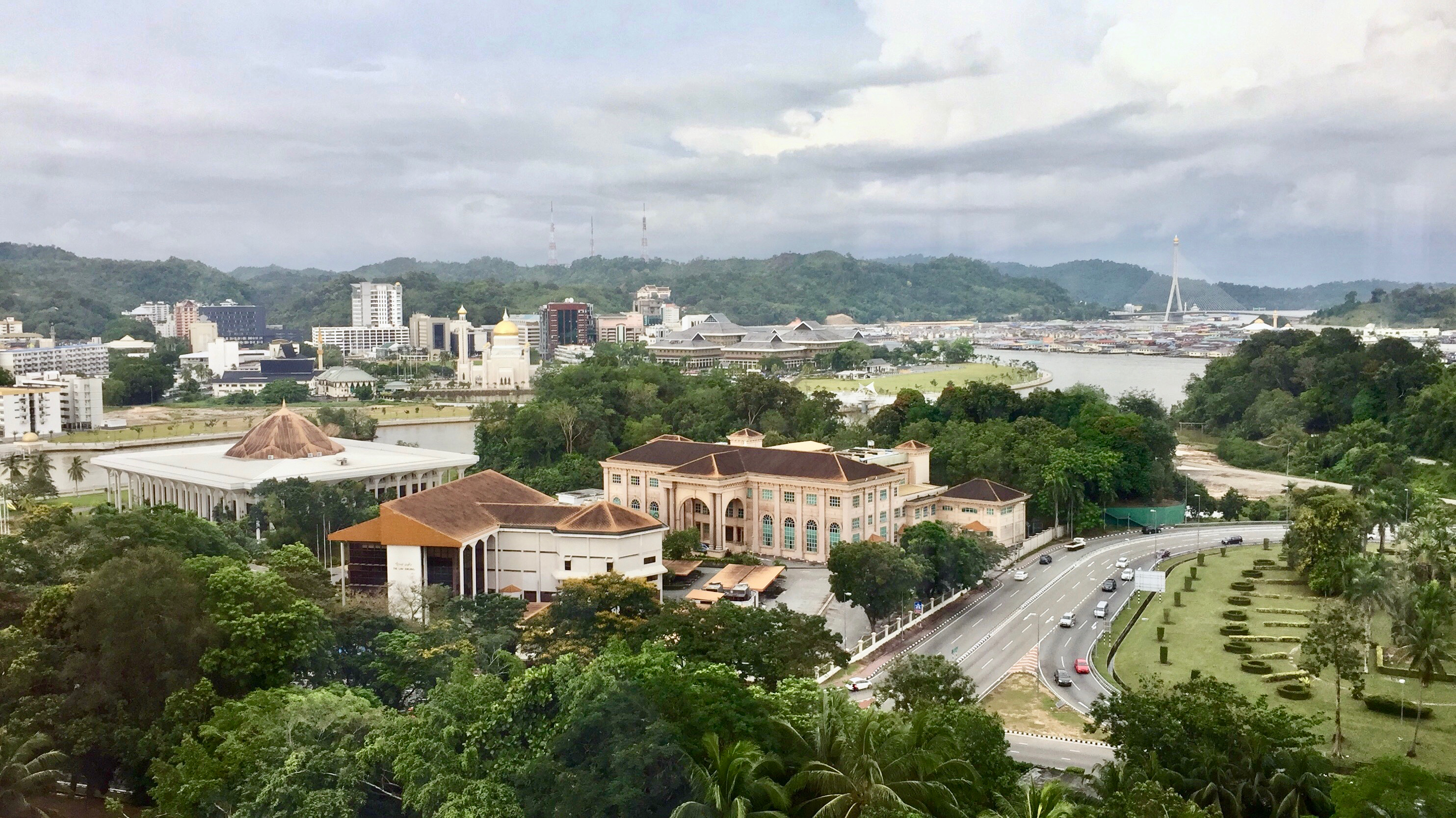 View of the City Centre and Kampong Ayer of Bandar Seri Begawan. Taken on 19 May 2018.